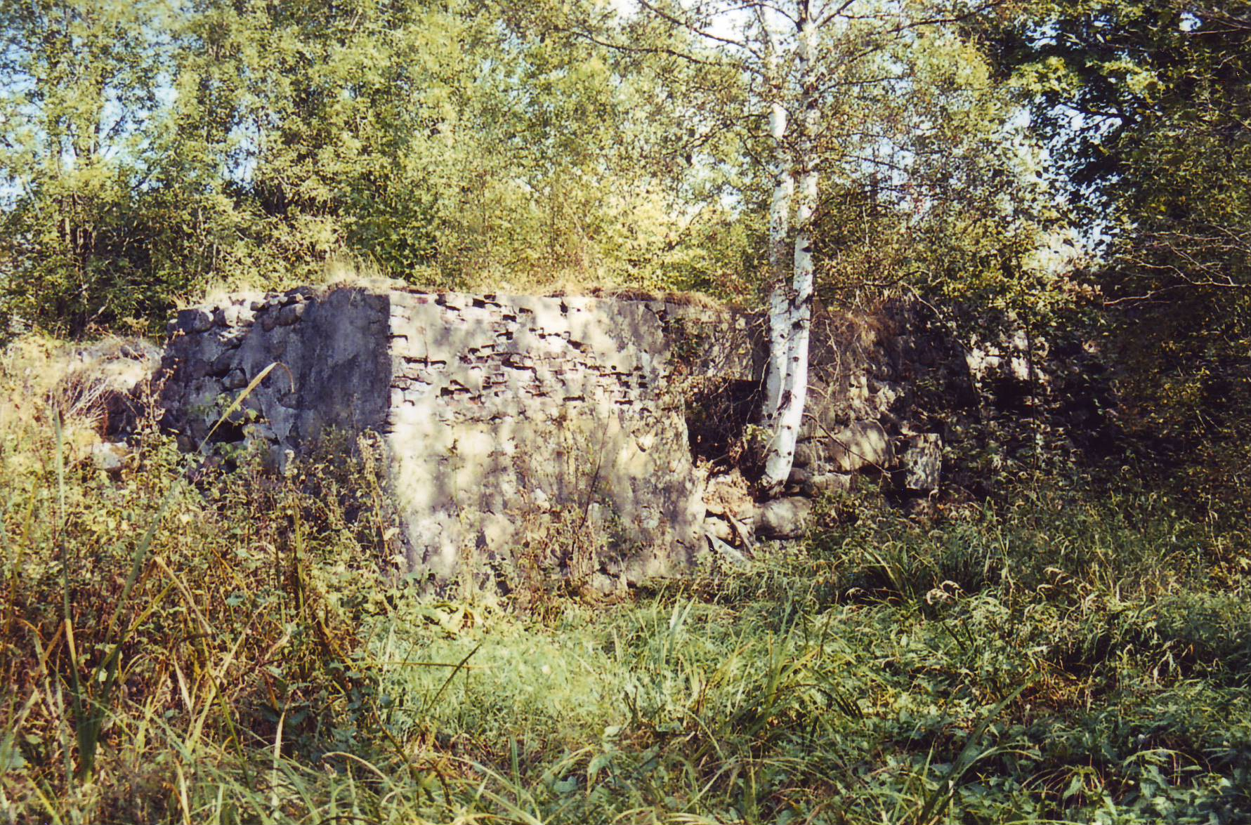 Dvarčininkai, Kretinga district, Lithuania